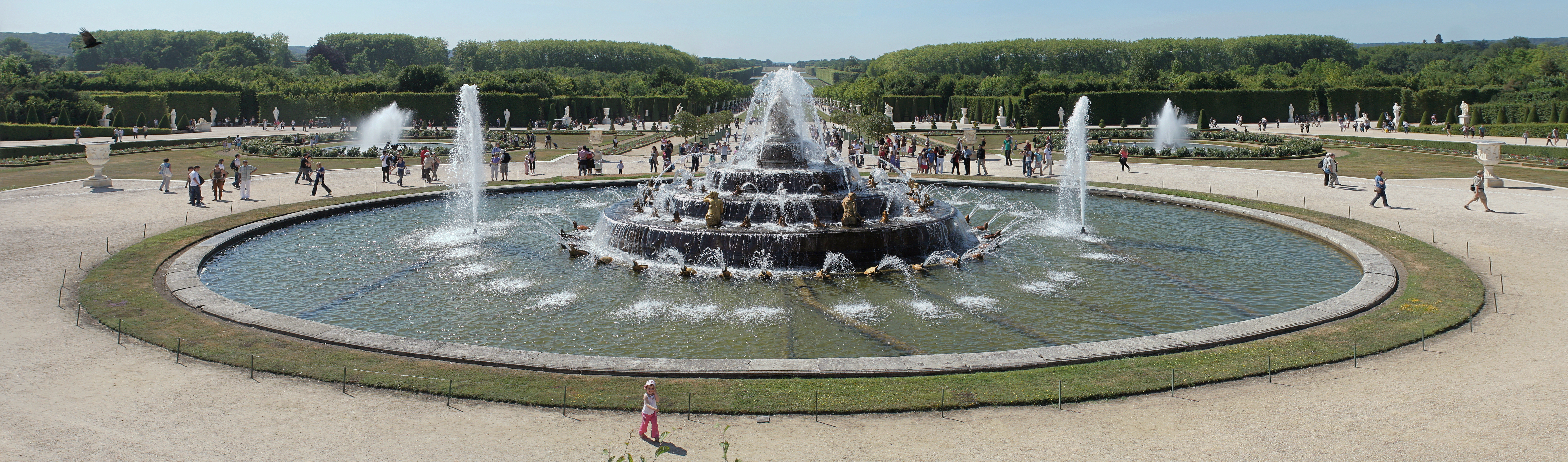 The Bassin de Latone, in the Gardens of Versailles.